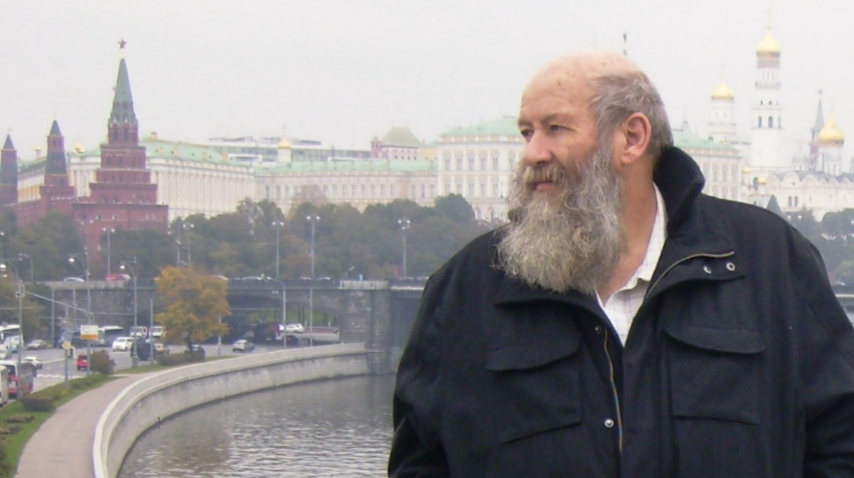 Australian author Howard (H. A.) Willis, photographed in Moscow on a visit there in 2013. Other information Taken by Erica Willis, the wife of the owner/subject, Howard (H. A.) Willis in Moscow, Russia in either September or October, 2013.